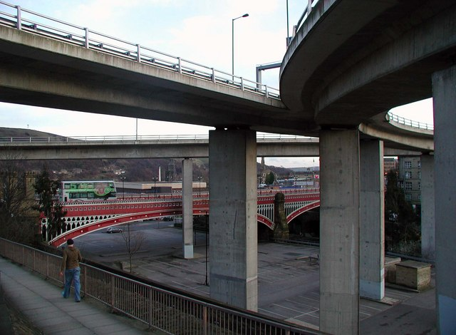 North Bridge Flyover, Halifax